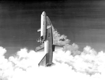 Faget shuttle concept around 1969 - straight wings, two stages, fully reusable